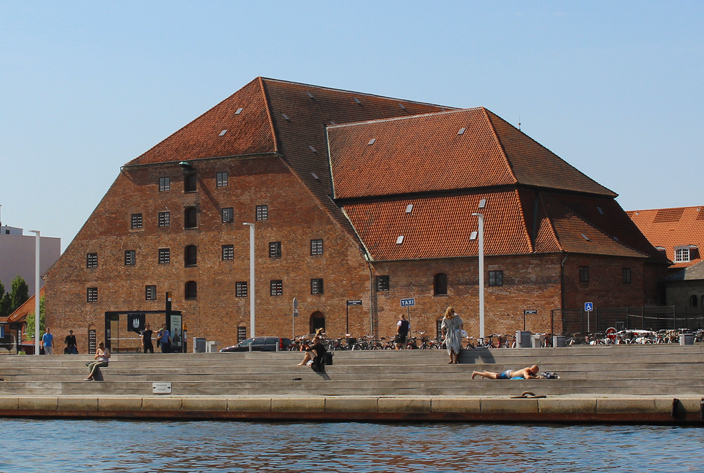 Christian IV's Brewhouse from 1616 in Copenhagen, Denmark (2018)